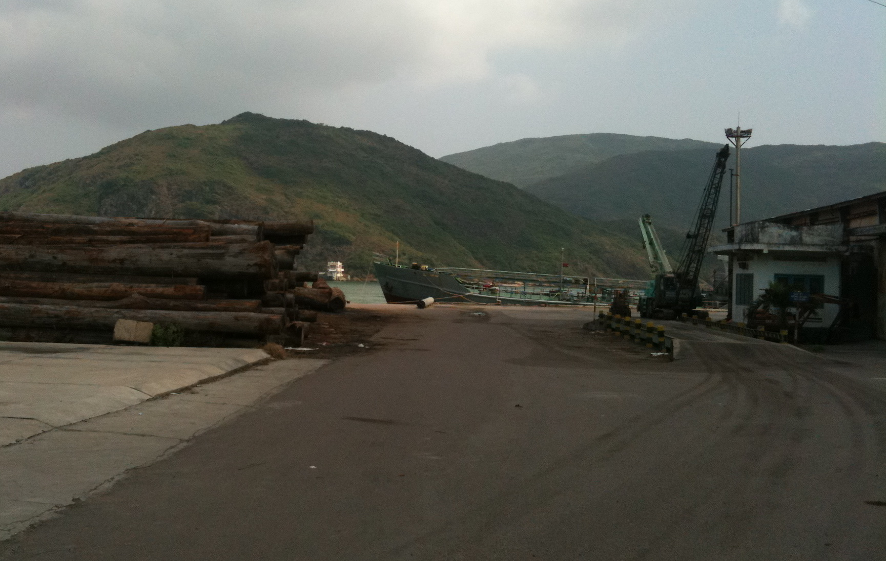 Inside Thi Nai Port, Quy Nhon, Vietnam.